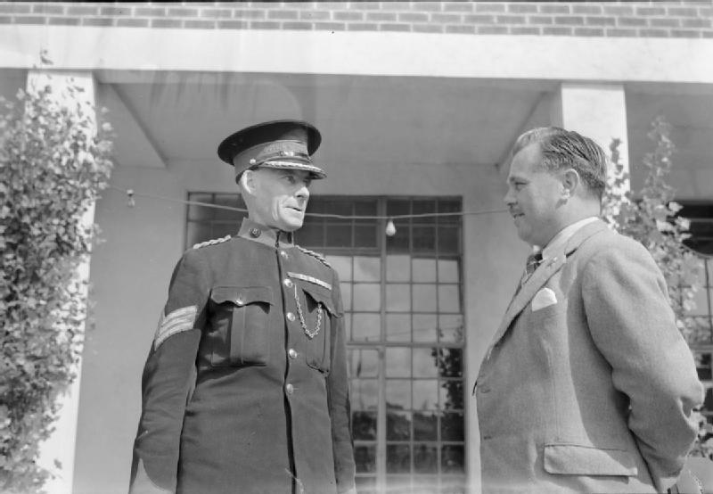 Billy Butlin, MBE, (right) chats to Sergeant J Caffrey, VC, (left) one of the Commissionaires at Filey Holiday Camp. According to the original caption, Sgt Caffrey, VC, won his Victoria Cross at Ypres during the First World War.